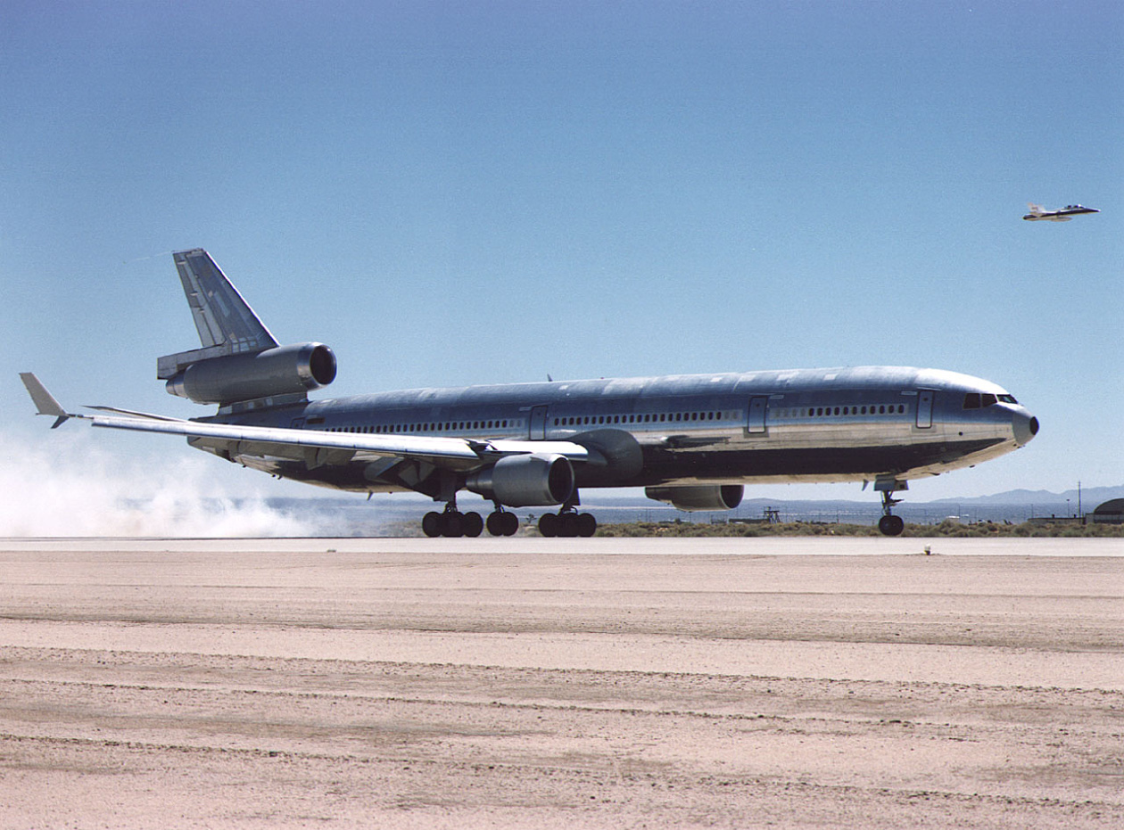 MD-11 Propulsion Controlled Aircraft shortly after touchdown.